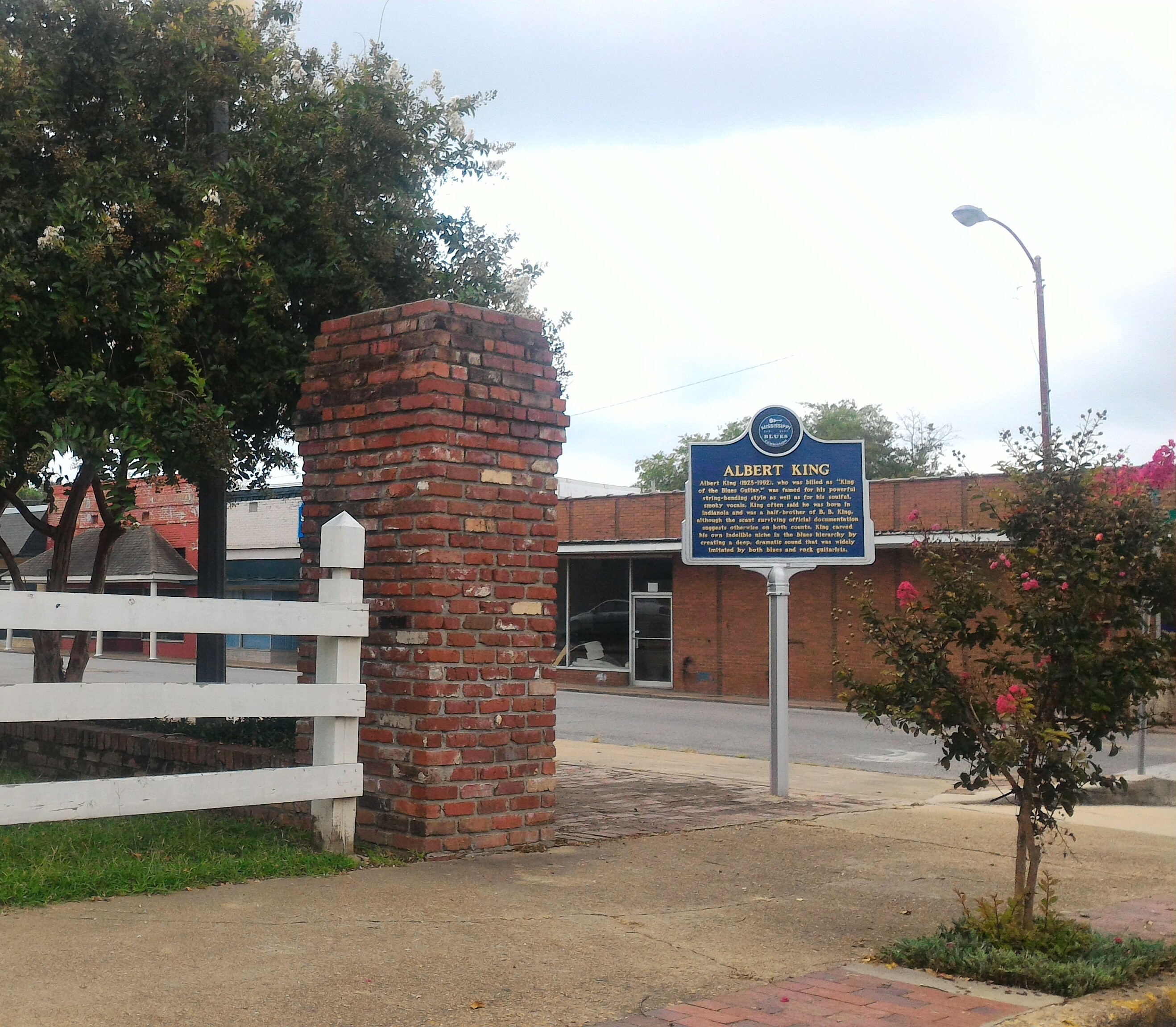 Mississippi Blues Trail marker located in downtown Indianola, Mississippi